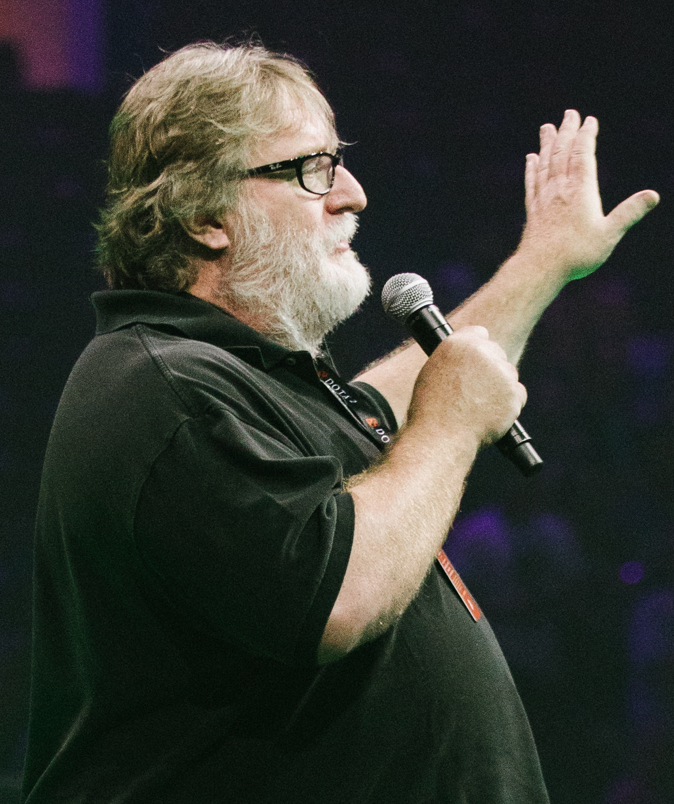 The International 2018